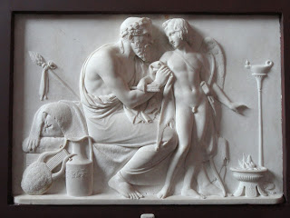 Greek poet Anacreon with his lover.